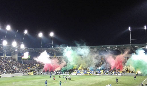 DAC fans against AS Trencin